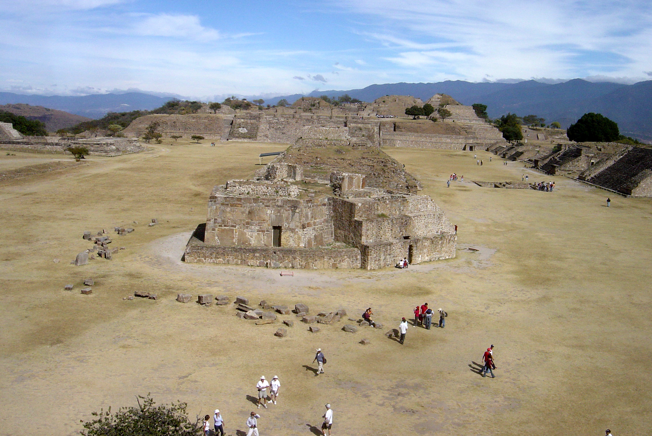 Monte Alban. Please observe license and properly cite in use outside Wikipedia. This photo was moved from english Wikipedia. It was taken from the Monte Albán article of that wikipedia.